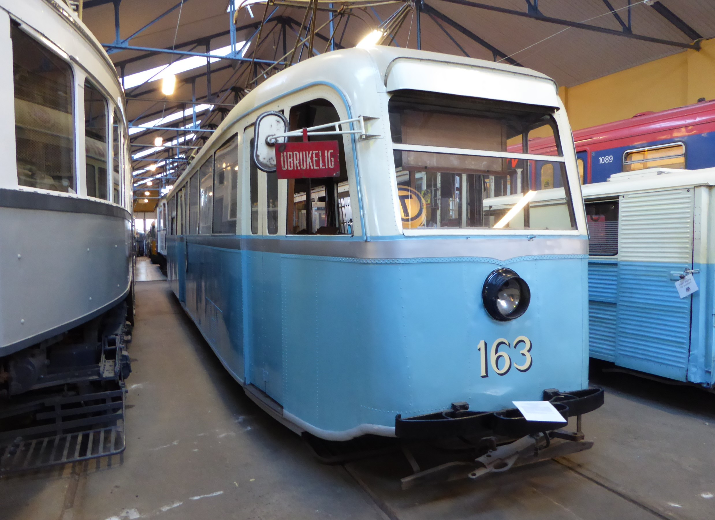 The tram OS 163 of Oslo Sporveier from 1937 at Sporveismuseet in Oslo.